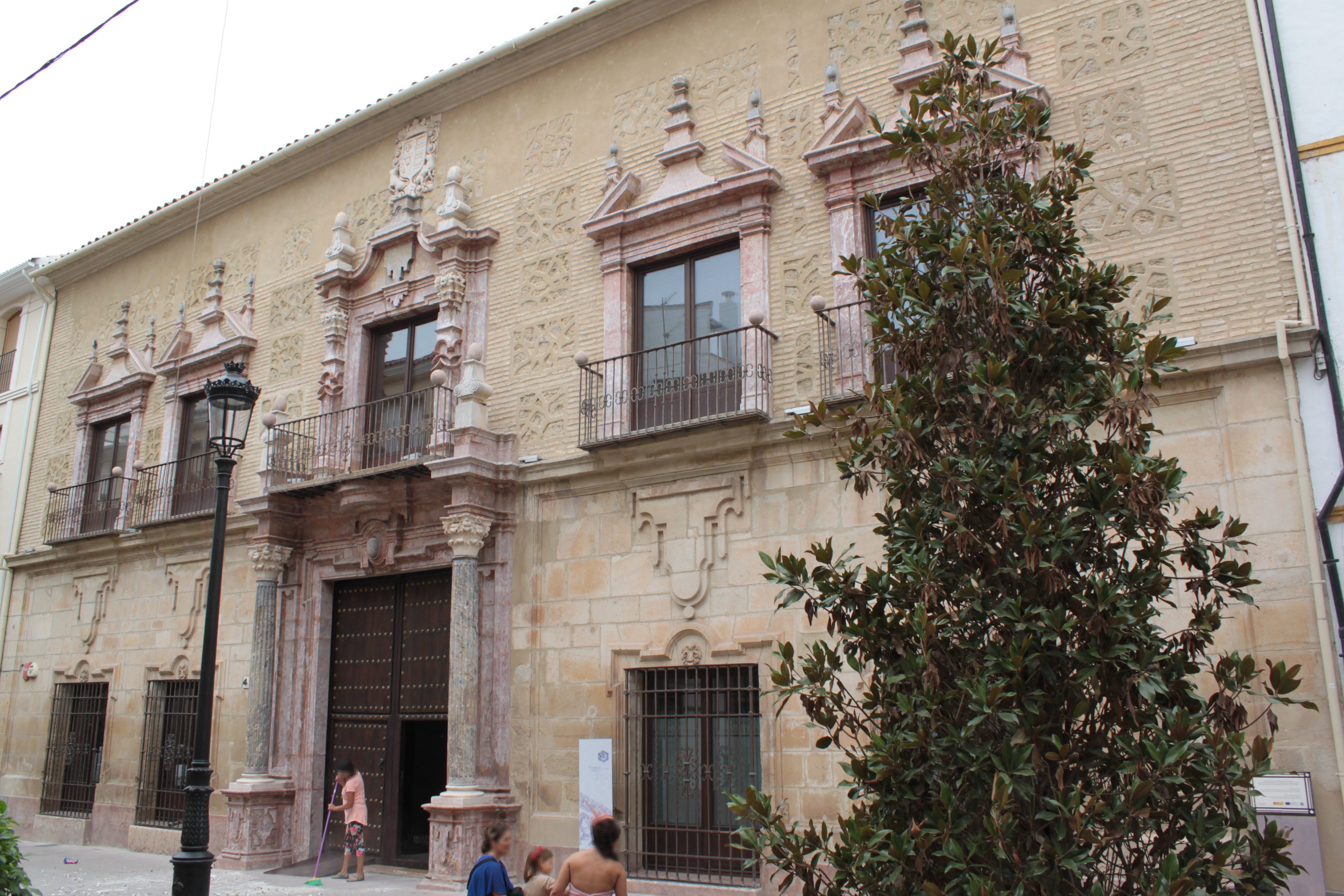 Palace of the Counts of Santa Ana. Lucena (Spain).